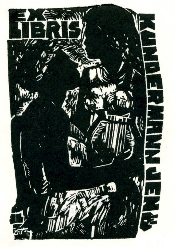 Ex libris